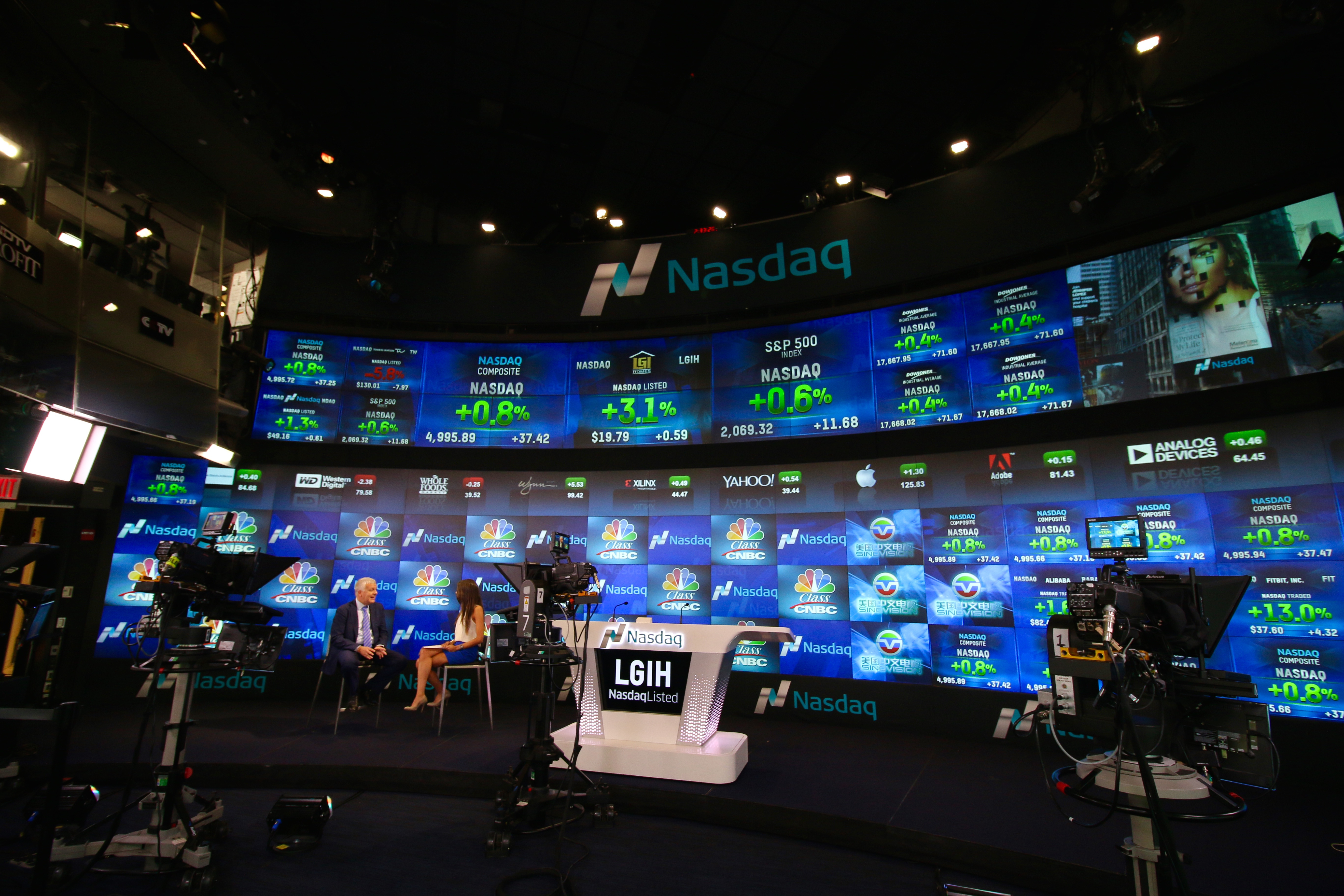 Min. of Environment Galletti during his interview at Nasdaq Available for reuse by properly crediting the author Photo by Luca Marfe'